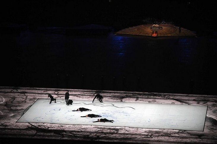 Performances at the 2008 Summer Olympics opening ceremony